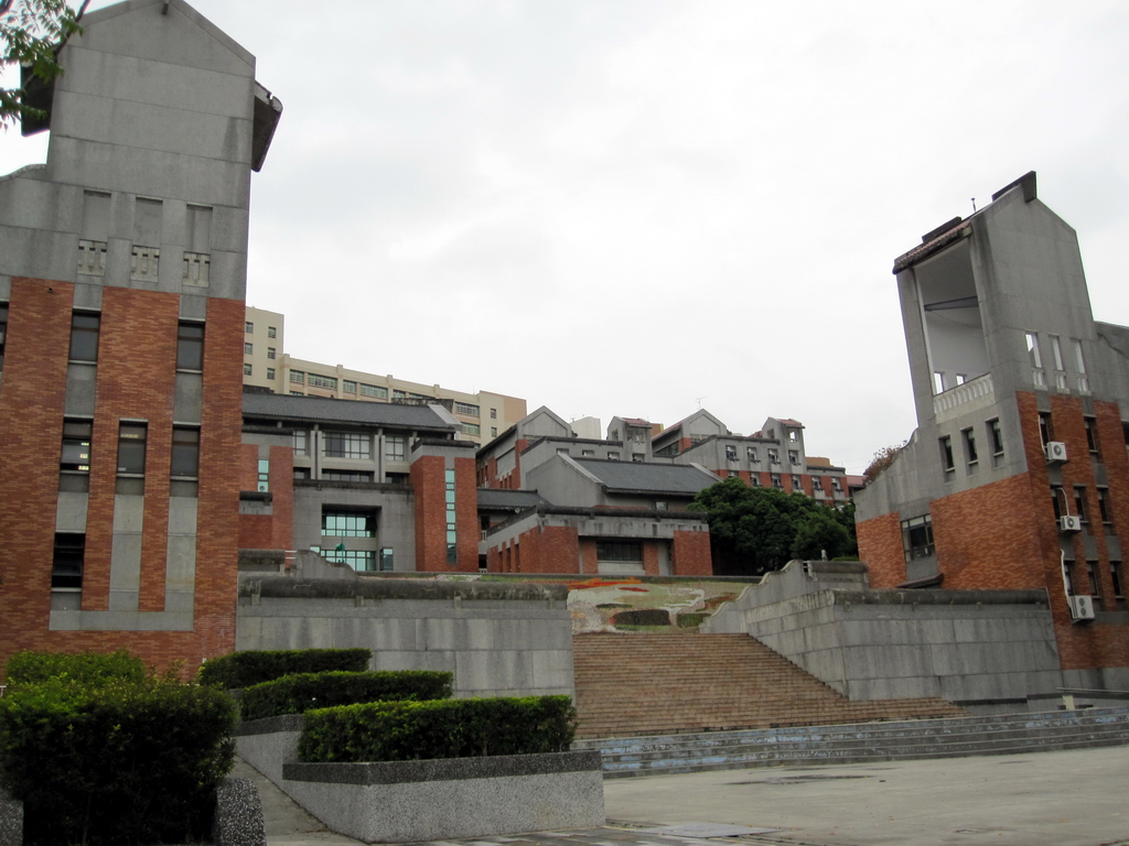 The administrative building of Taipei National University of the Arts. 中文（台灣）: 國立臺北藝術大學行政大樓。